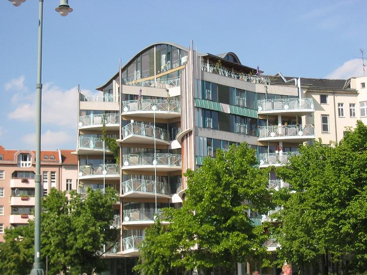 Winterfeldtplatz (place) in Berlin-Schöneberg, Germany. Residential house, built by the architect Hinrich Baller.